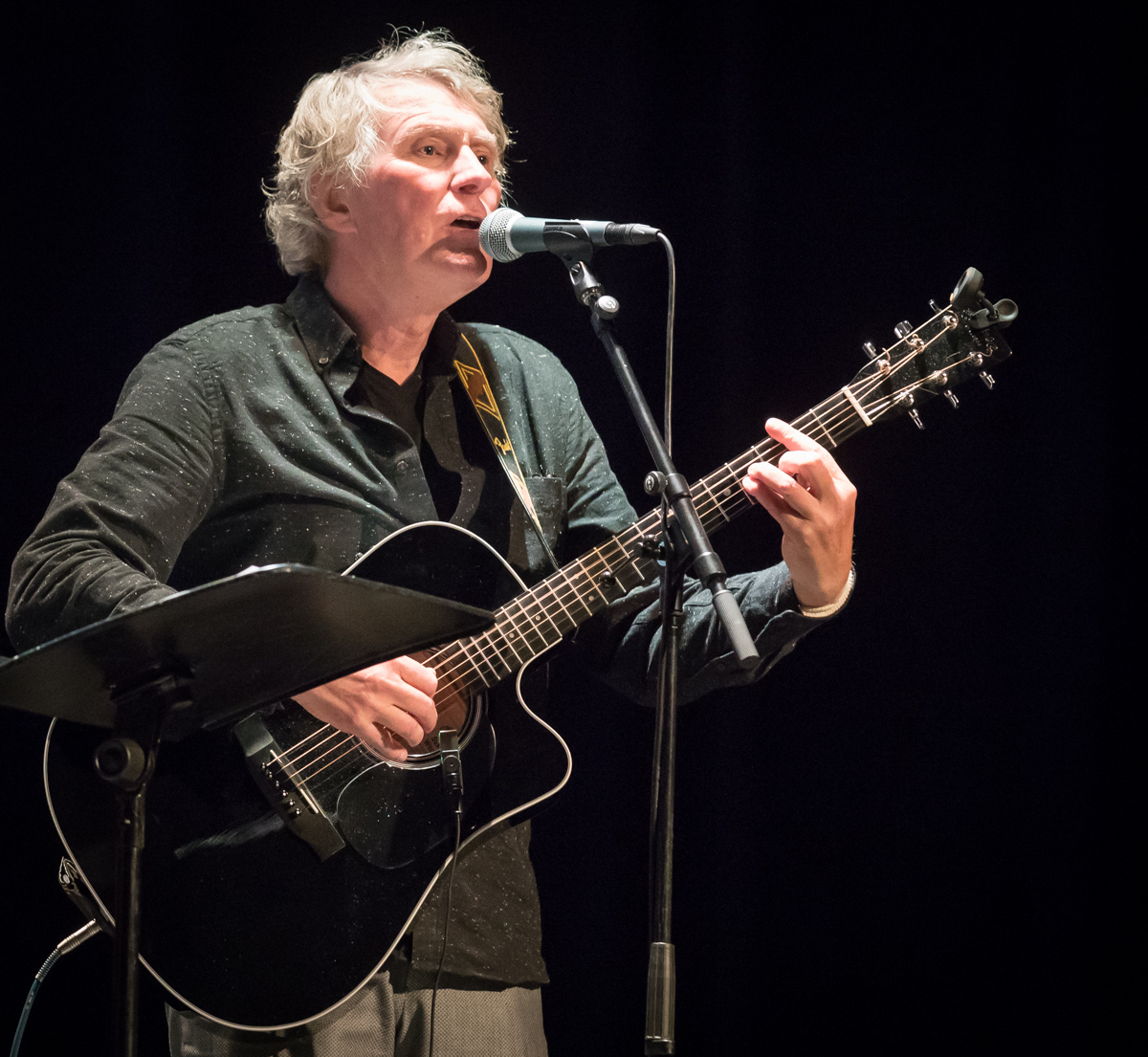 Rudolf Nilsens songs and poetry, performed at the stage of Cosmopolite. The concert took place on 10. December 2016 in Oslo. Lineup: Jon Arne Corell (guitar / vocal) Kari Svendsen (guitar / vocal) Lars Klevstrand (guitar / vocal) Steinar Ofsdal (flute) Carl Morten Iversen (double bass)